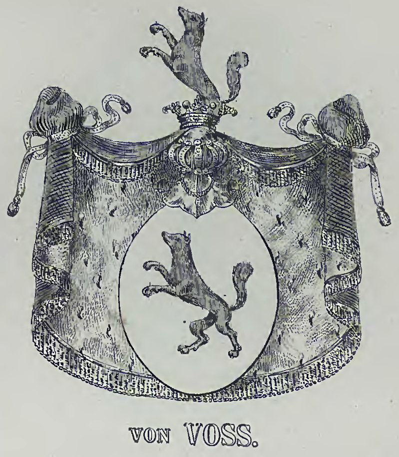 Coats of Arms of the family von Voss